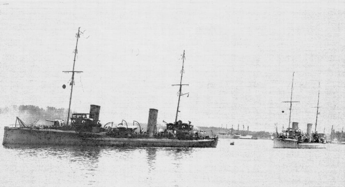 Imperial Russian destroyers Burnyy and Inzhener-mekhanik Zverev.